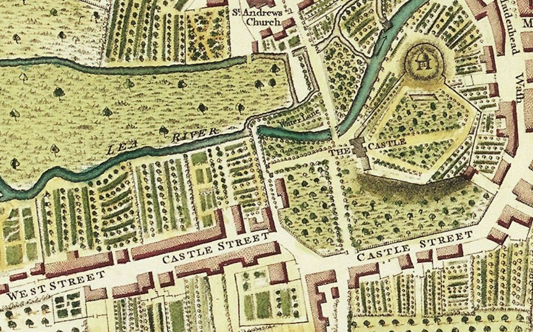 Castle Street, Hertford from A plan of Hartford by J. Andrews and M Wren 1766